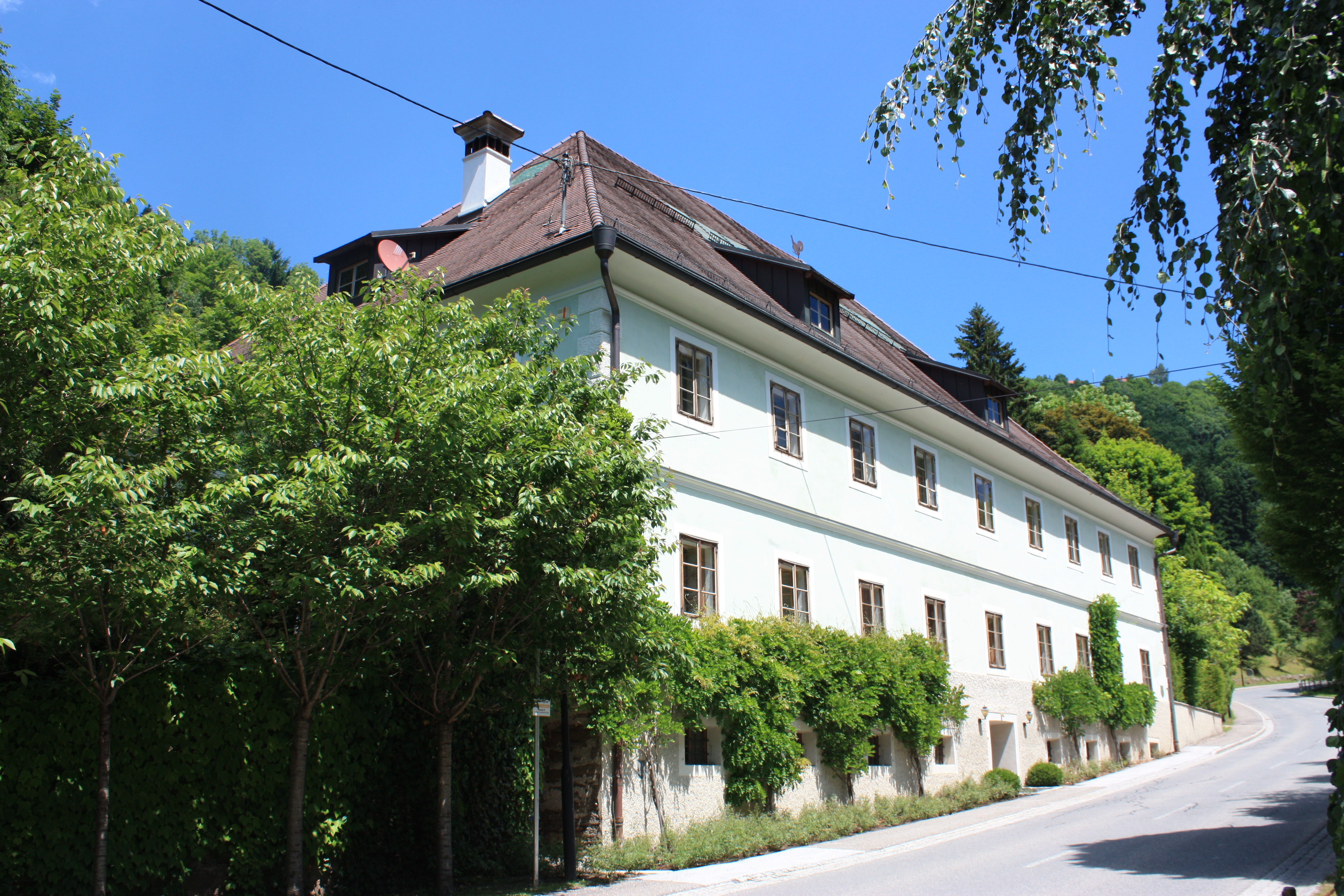 Zechnerhof Locality:Lölling Community:Hüttenberg